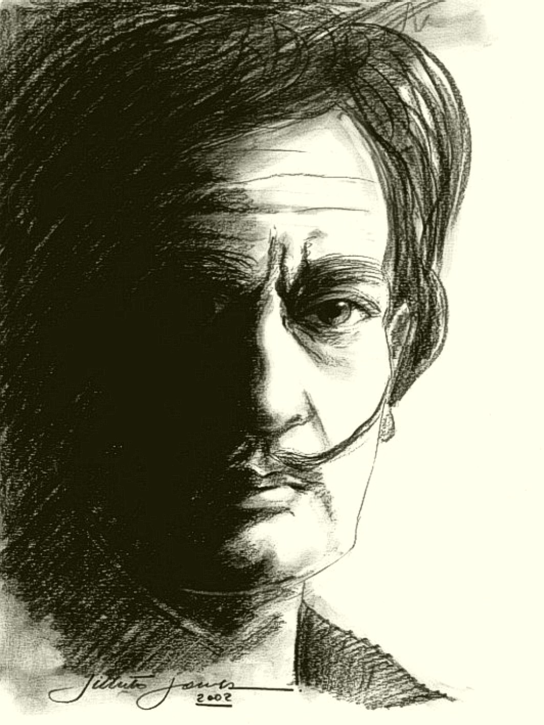 A Conquista do Homem diante do Universo - 1990 - MSE - 182X336